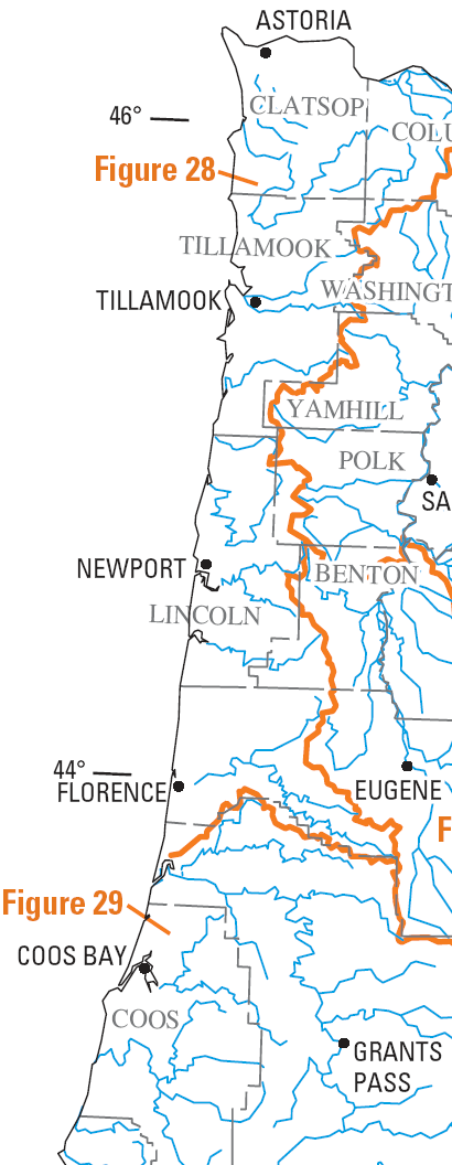 River drainage basins in Oregon, cropped to Northern Oregon Coast Range